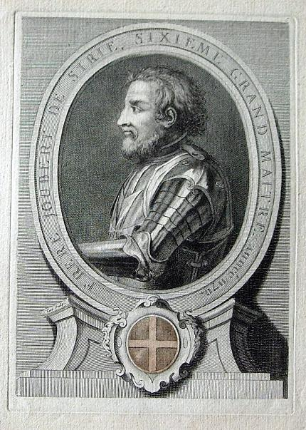 copper engraving, portrait of Jobert of Syria, entitled FRERE JOUBERT DE SIRIE SIXIEME GRAND MAITRE